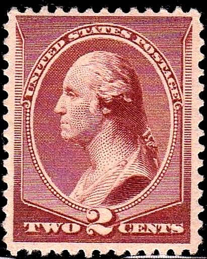 US Postage stamp, Issue of 1883, 2c, color variety